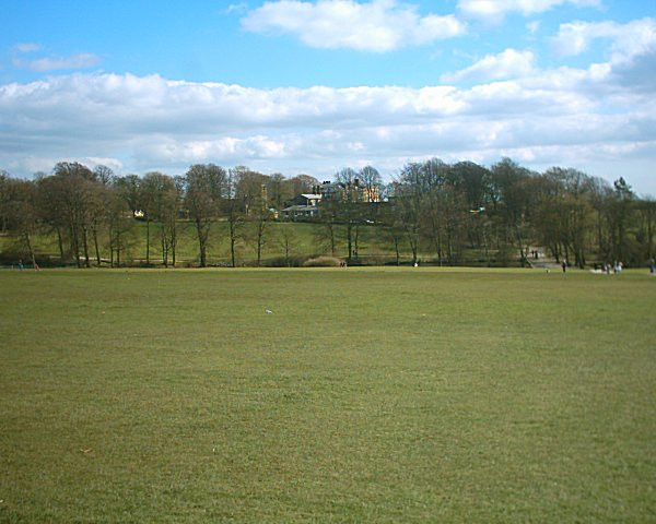 Graves Park, Sheffield.